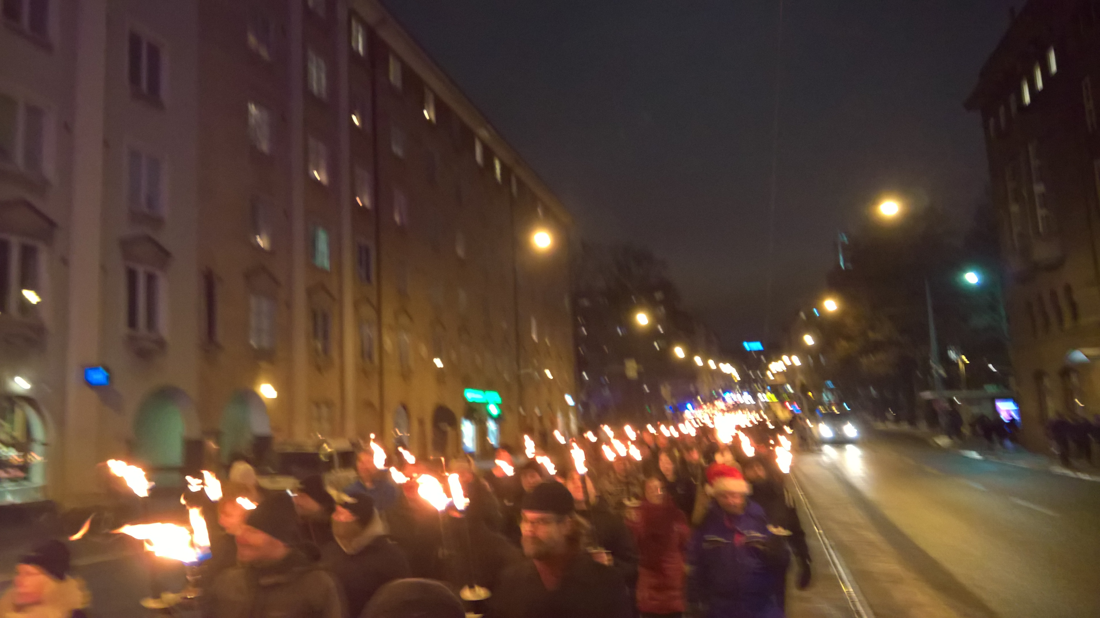 The 612 parade in Helsinki, December 6, 2017. Passing the intersection of Runeberginkatu and Museokatu.